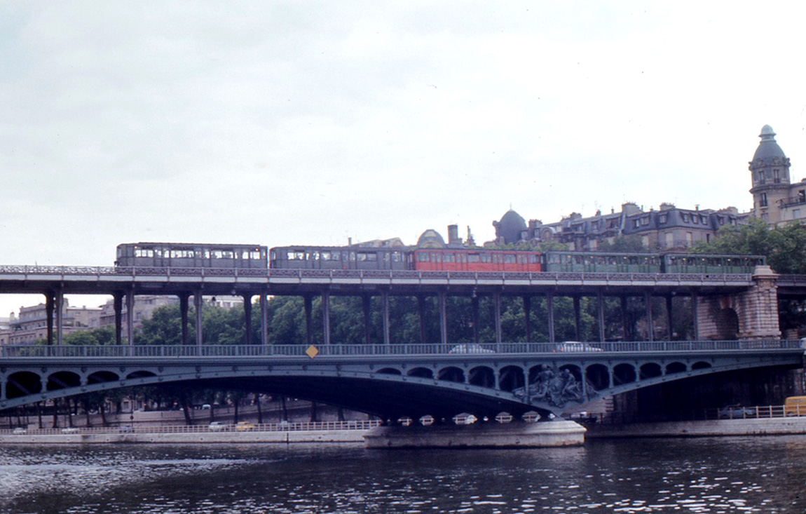 Métro and Bir-Hakeim Bridge